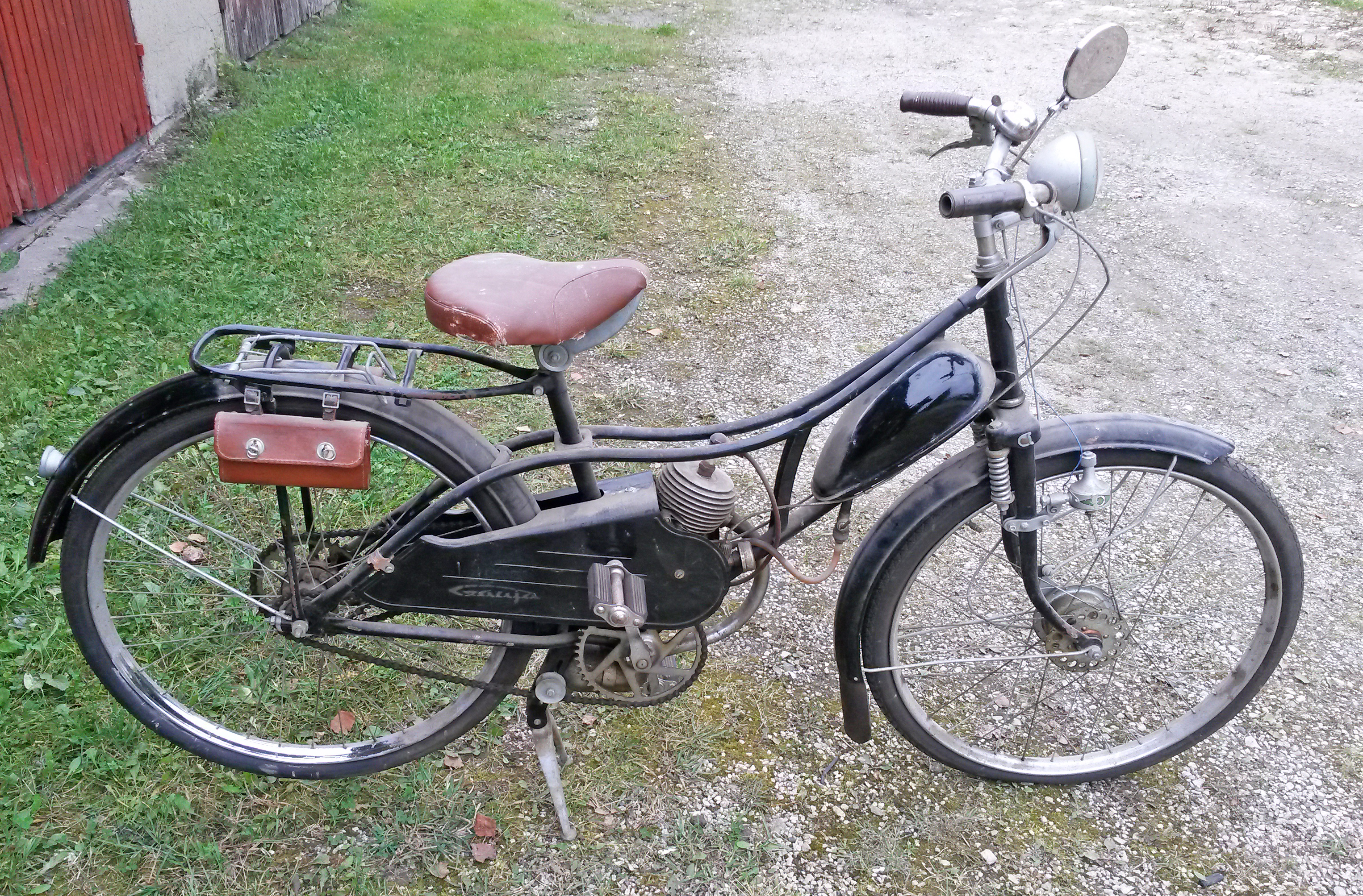 USSR moped Gauja (Riga-2) 1961